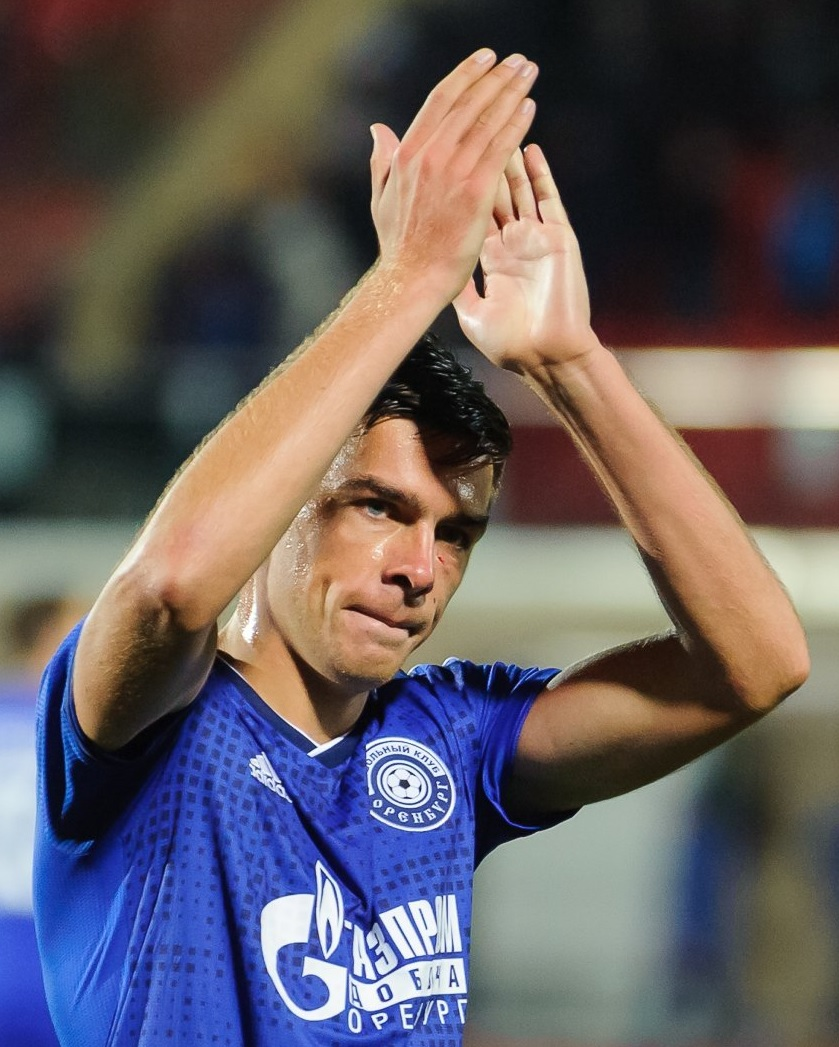 Timur Ayupov with FC Orenburg in a game against FC Chertanovo Moscow.